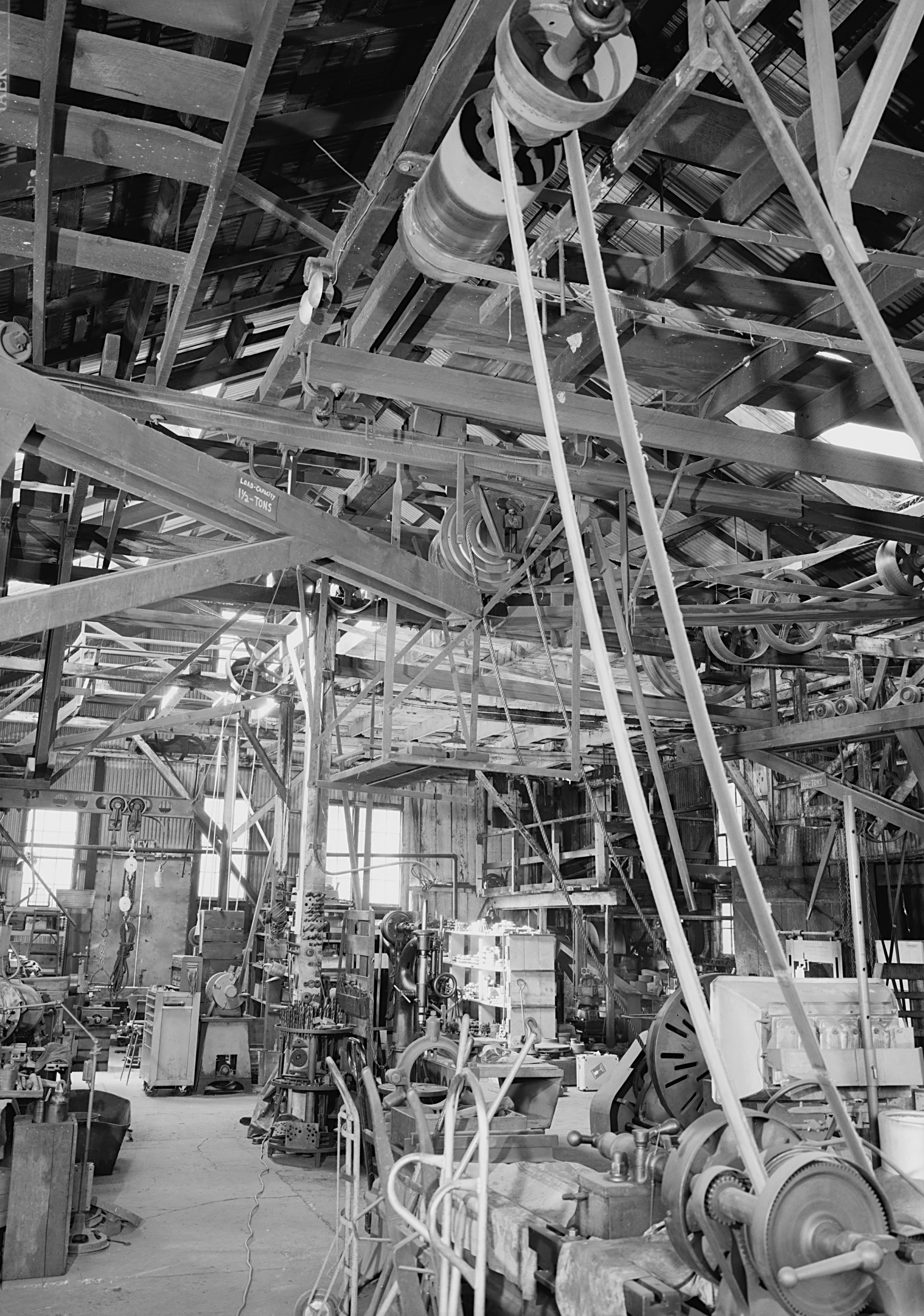 Line shaft and belt driven machinery. MACHINE SHOP NORTH/NORTHEAST INCLUDING OVERHEAD LINE SHAFTING. MOSTLY BELT DRIVEN WITH ONE ROPE DRIVEN LATHE IN MIDDLE GROUND. POWER COMES FROM KNIGHT TURBINE ON FAR WALL SHOWN IN K-77, 78 (42') HAER CAL,3-SUCRK,1-45